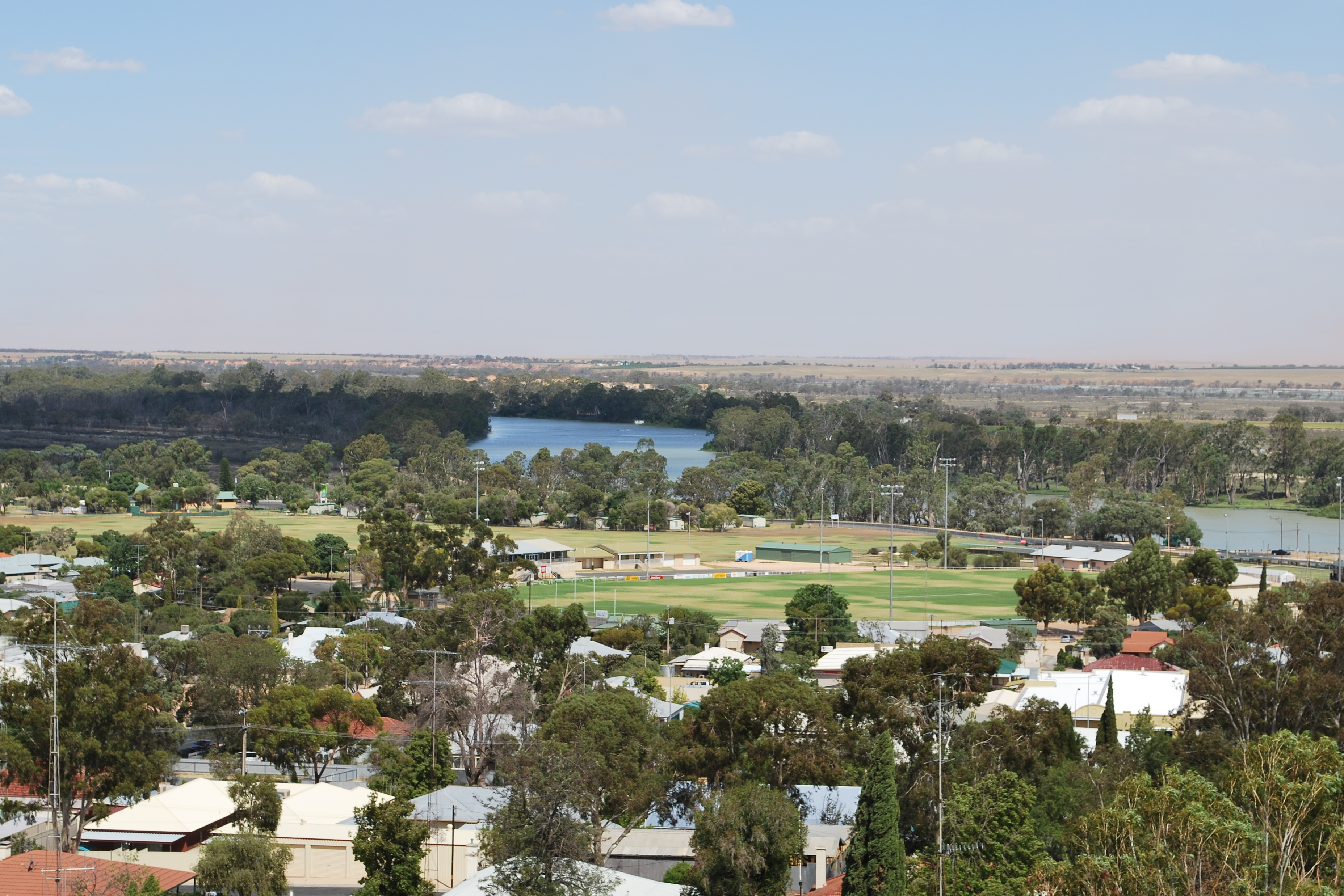 Overlooking the Australian rules football ground and Murray River at Berri, South Australia